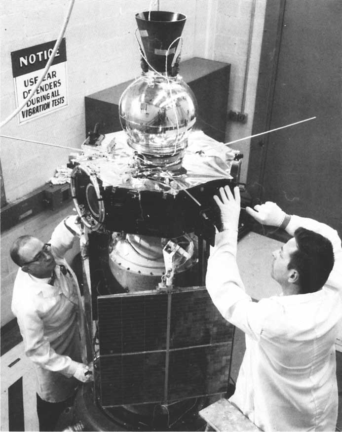 Interplanetary Monitoring Platform-E (IMP-E) other Name Explorer 35